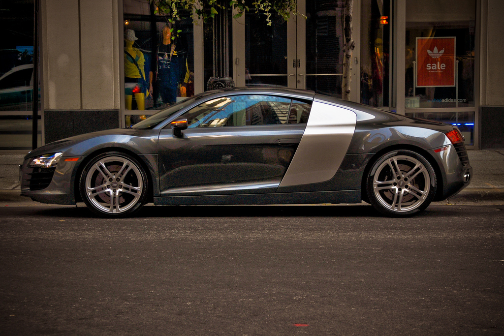 Audi R8